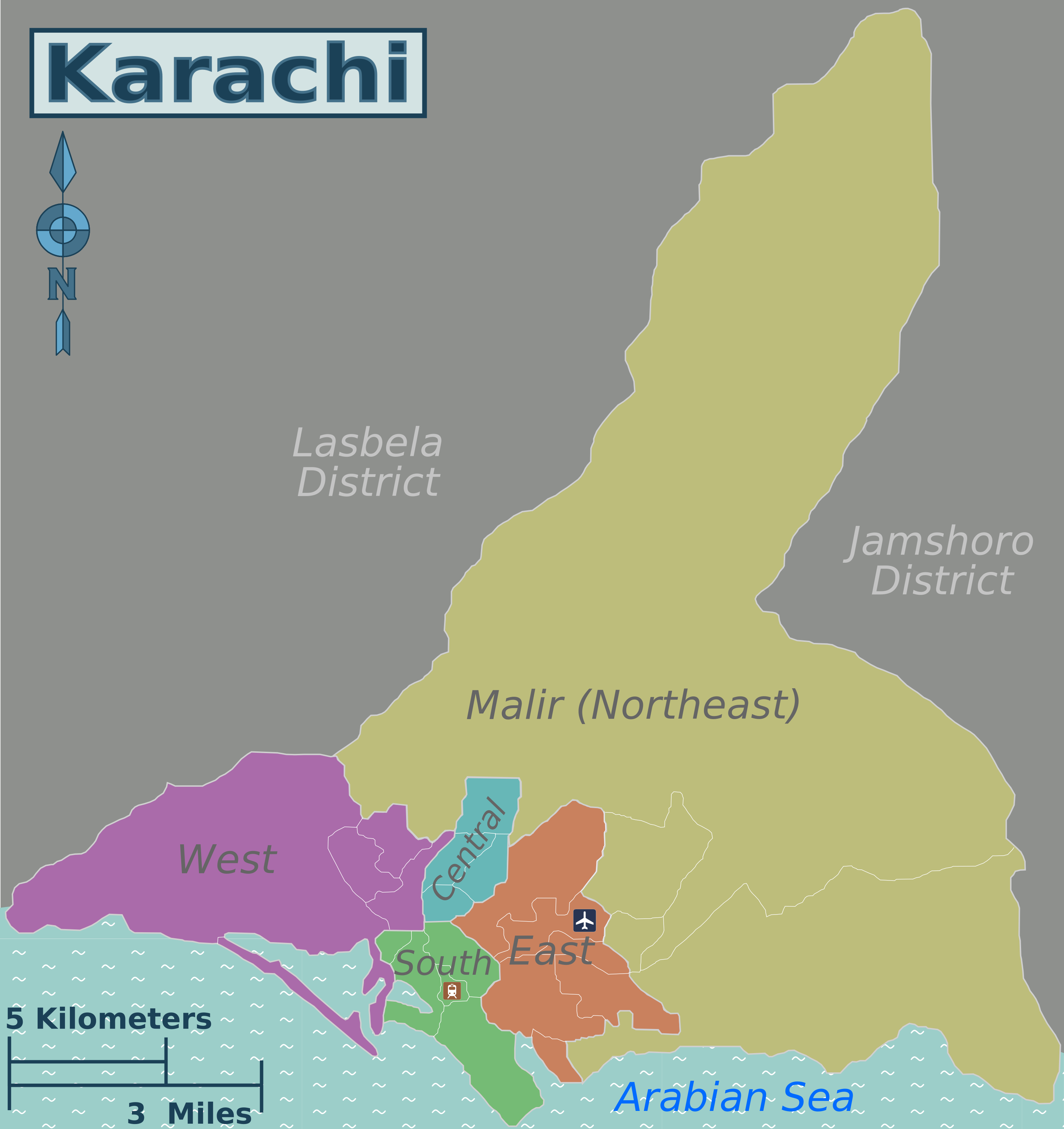 Karachi district map